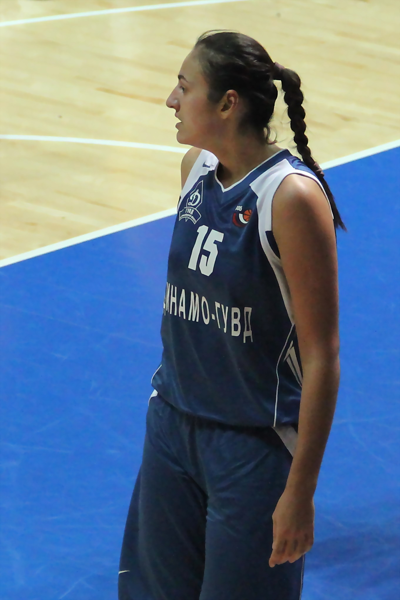 Russia, Vologda, Elena Gogia in game «Vologda-Chevakata» vs «Dinamo-GUVD» (Novosibirsk)